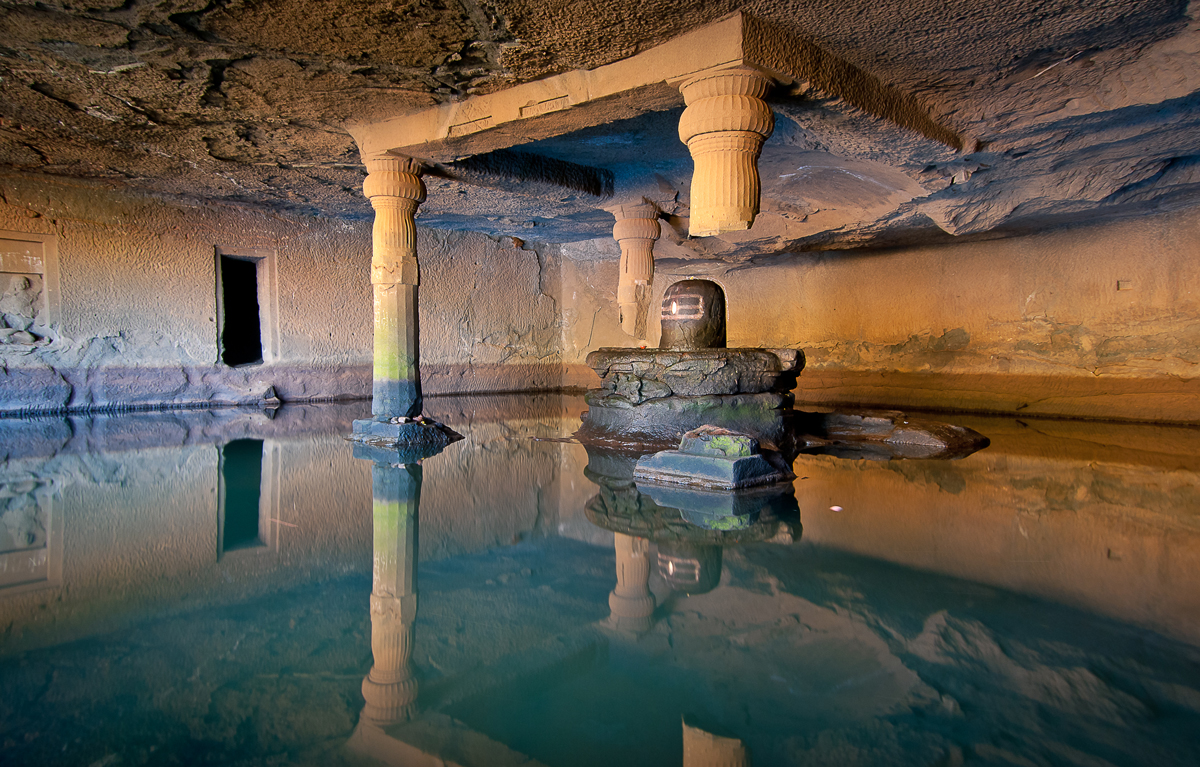 Kedareshwar cave of Fort Harishchandragad, Maharashtra, India. Temple dedicated to Lord Shiva